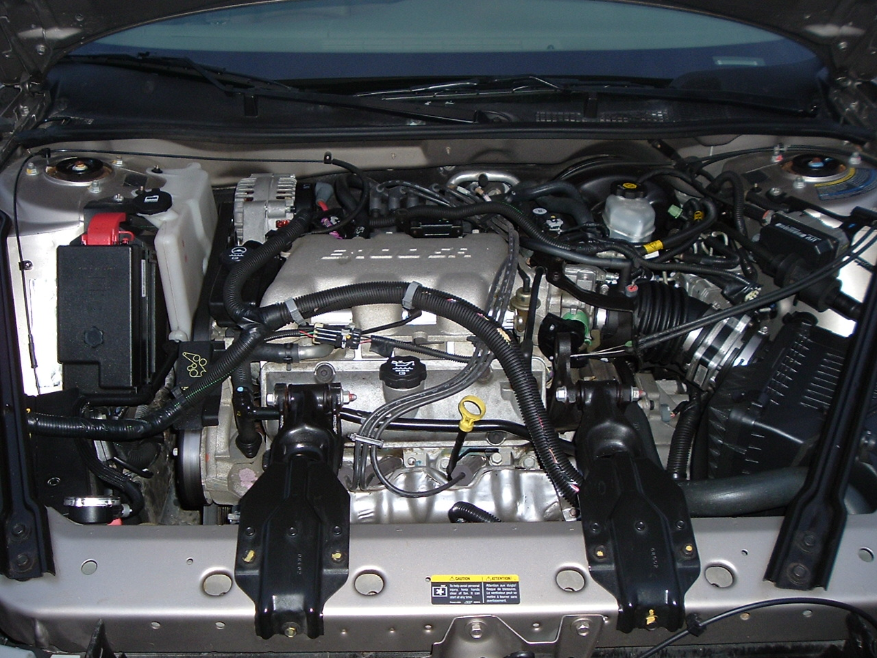 3100 V6 Engine Sequential Multi-port Fuel Injection; 175 HP, 195 lb-ft torque